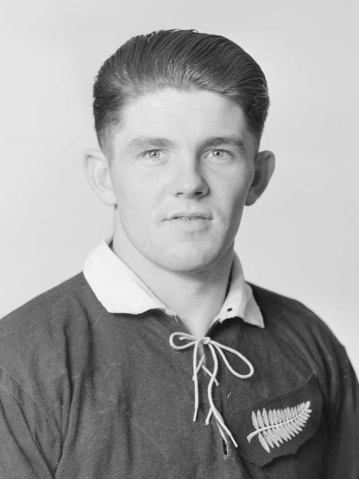 Maurice 'Morrie' James Dixon, member of the All Blacks, New Zealand representative rugby union team